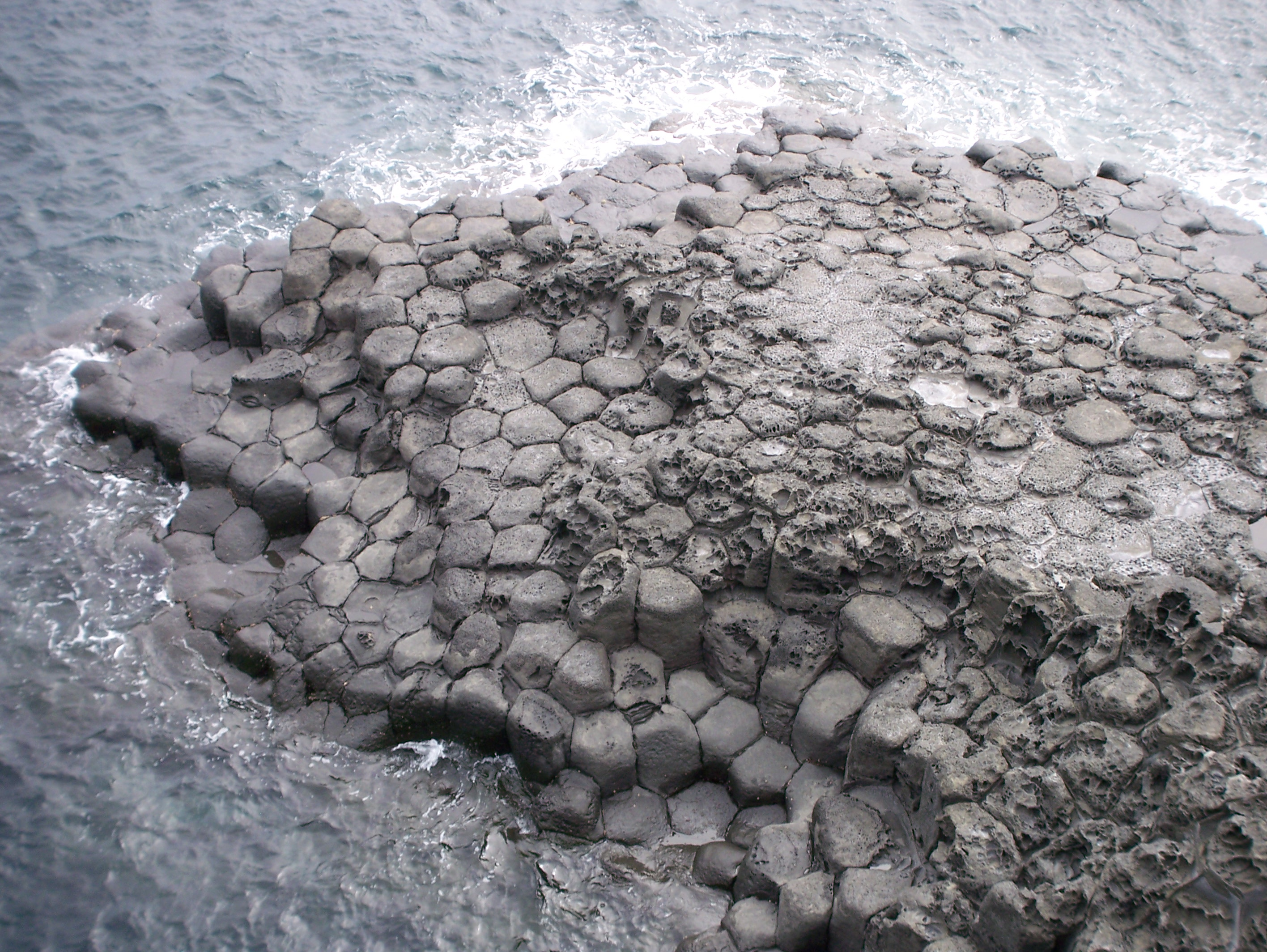 Jusangjeolli, Jejudo, Korea